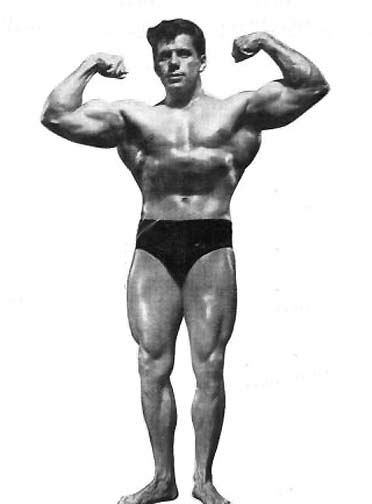 Gaétan D'Amours Mr. Canada 1961, Mr. America 1962